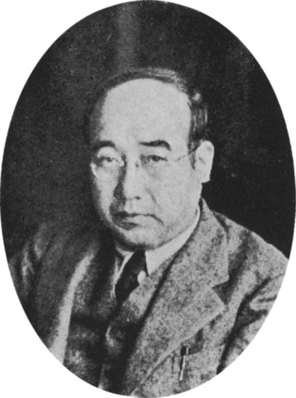 Hiroshi Nagai.